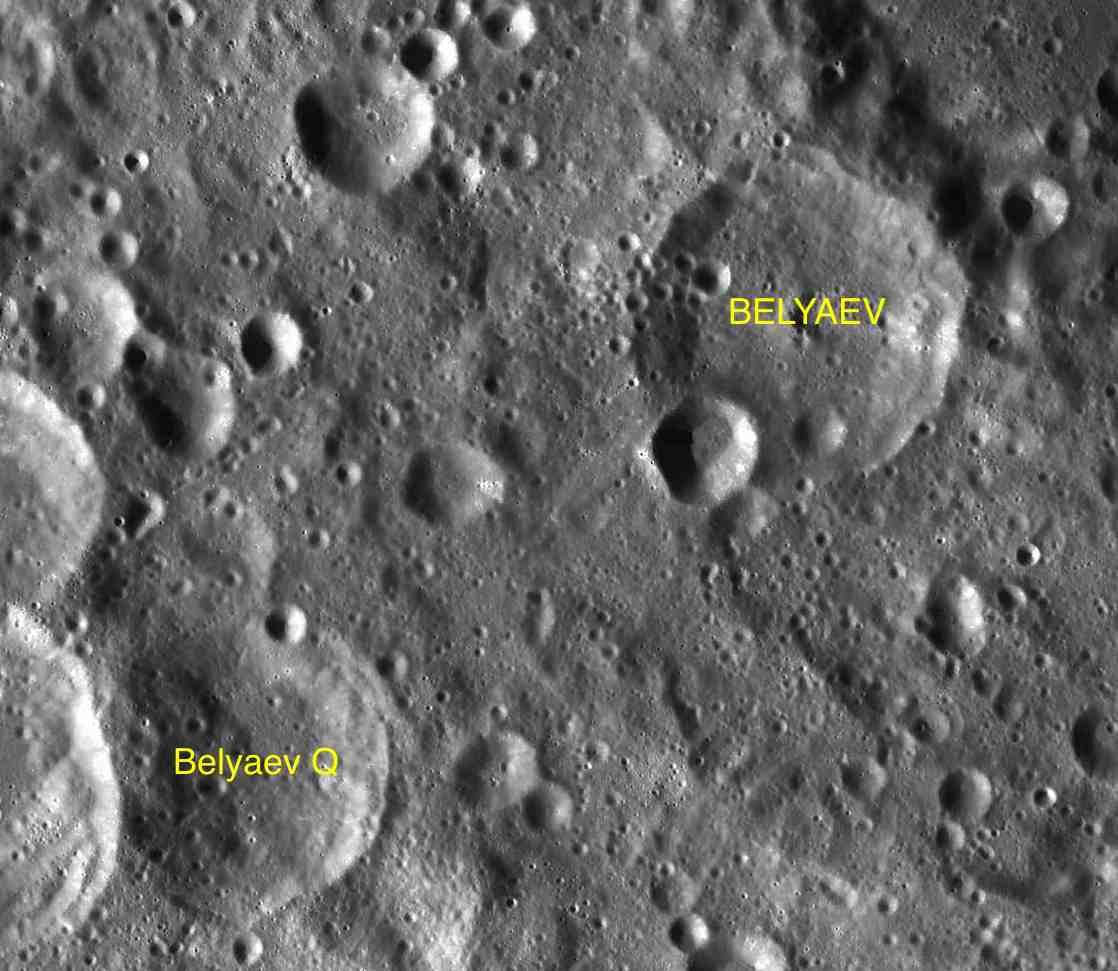 Part of the chart LAC-48 used for the presentation